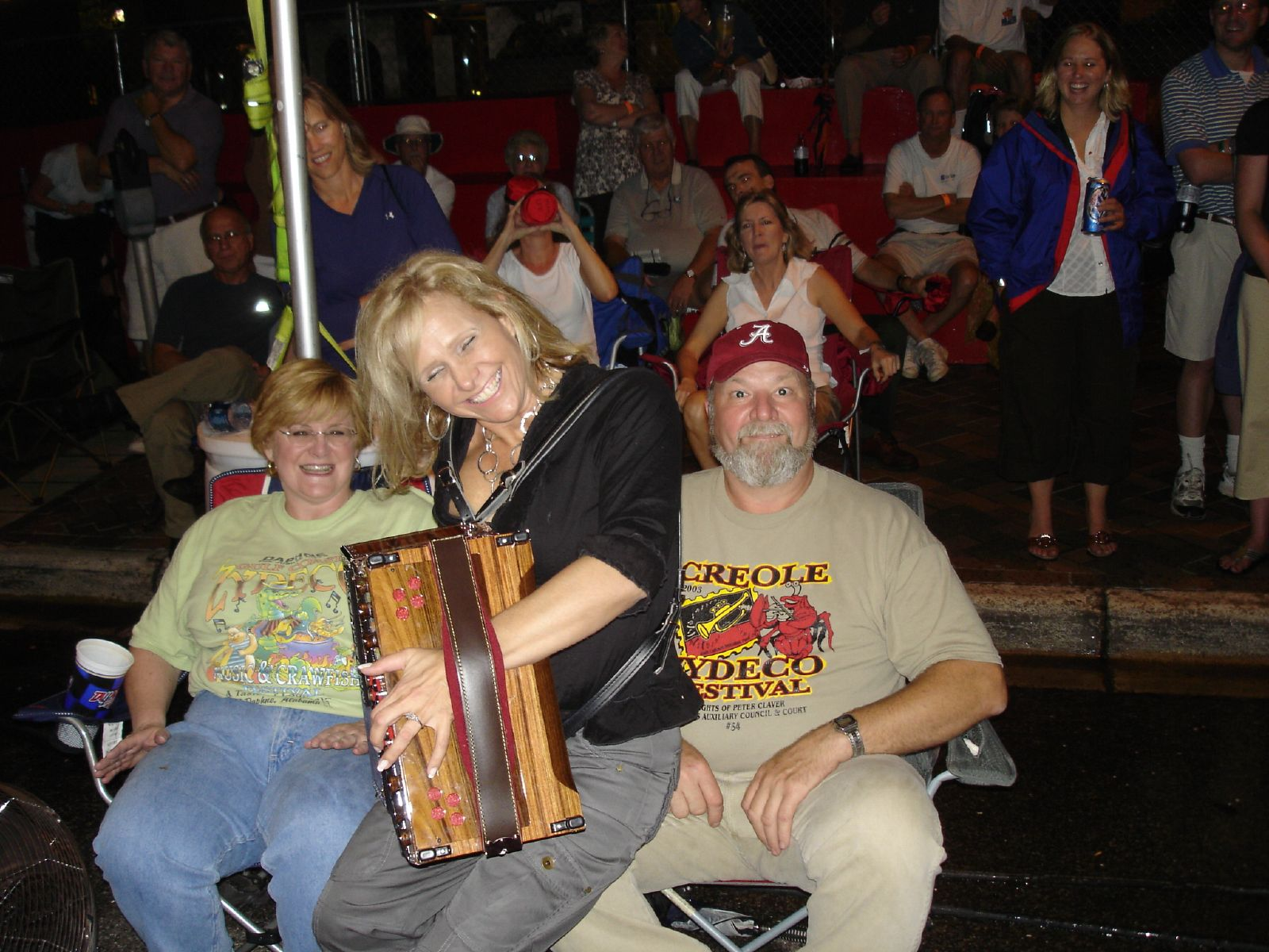 Singer & accordion player LynnMarie poses on the lap of audience member Hans. City Stages music festival in Birmingham, AL